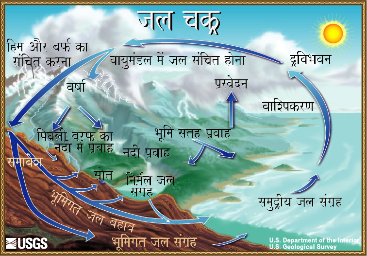 Water-Cycle Diagram (Hindi)